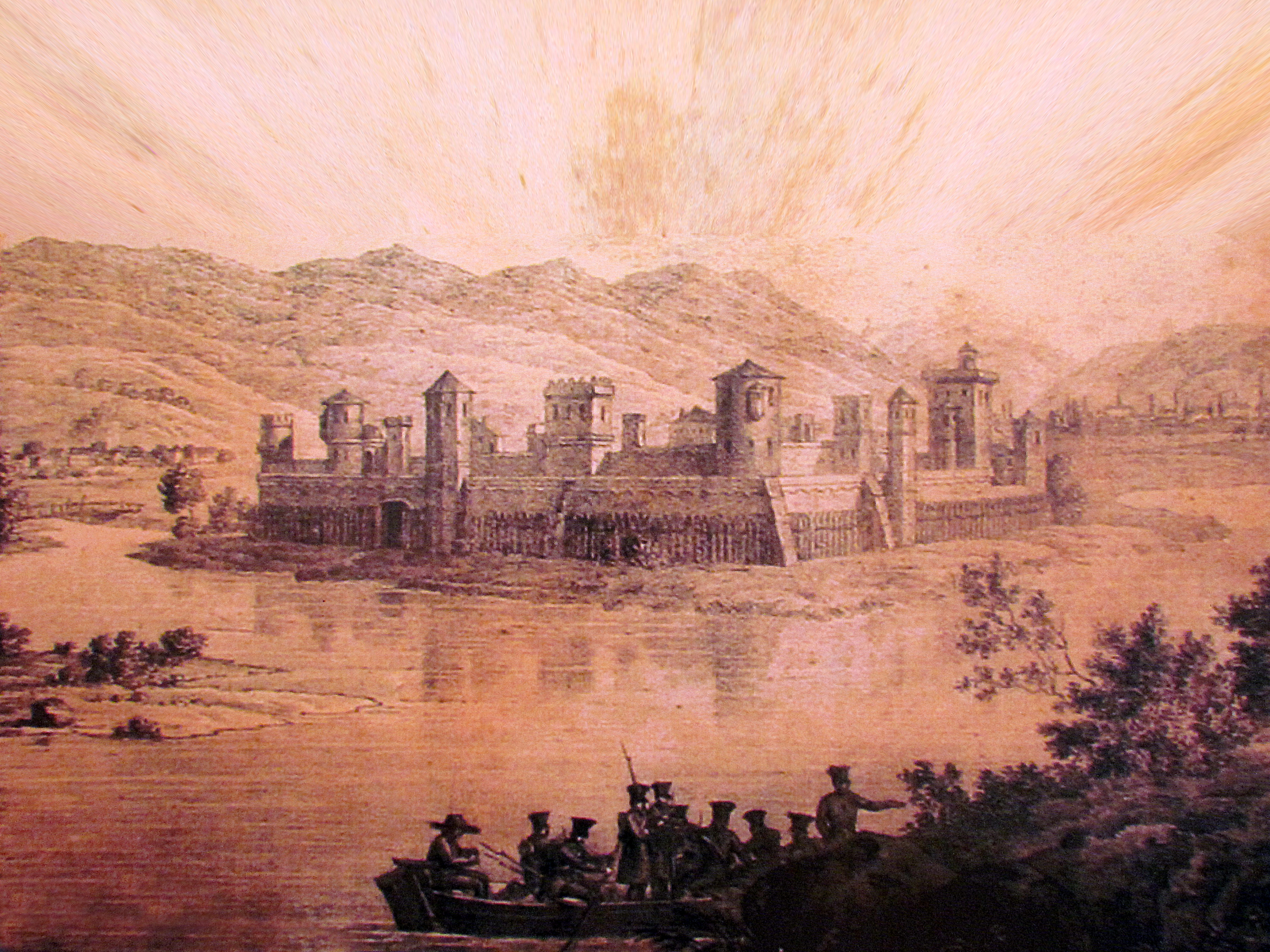 Adolph Friedrich Kunike Smederevo Fortress XIXc.